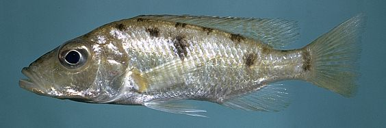 Young adult individual of Stigmatochromis woodi (type species of the genus) freshly collected from Lake Malawi, showing the genus-typical color pattern including three small main lateral spots. Photographed in a photographic tank.